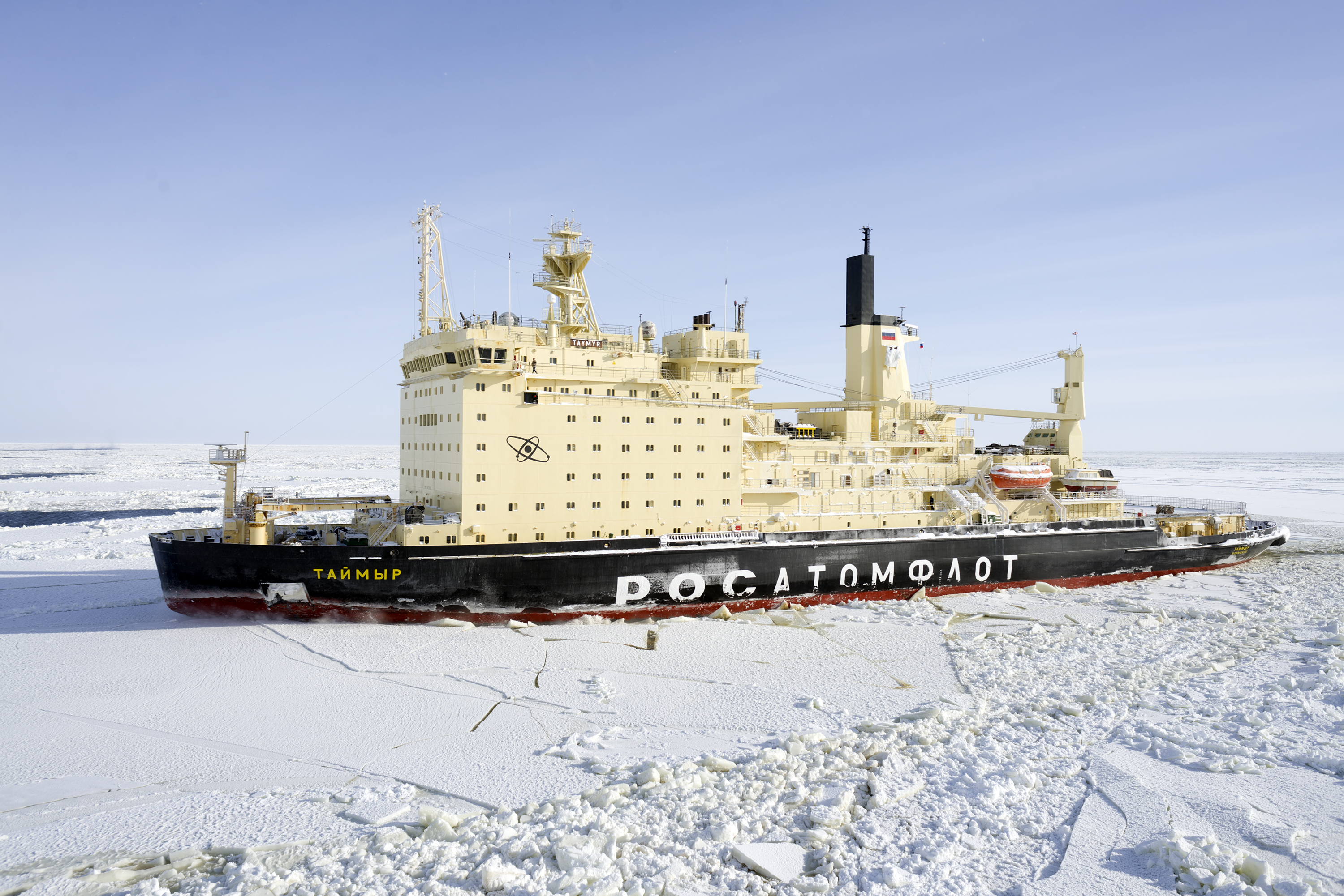 Nuclear-powered icebreaker Taymyr passing at close range somewhere in the Kara Sea.